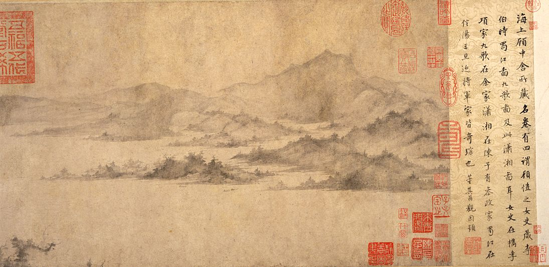 Part of the Imaginary tour through Xiao-xiang (紙本墨画瀟湘臥遊図, shihon bokuga shōshōgayūzu) by Li Shi (李氏) from the 12th century, Song Dynasty. Scroll, 30.3 cm x 400.4 cm. Ink on paper. Located at Tokyo National Museum, Tokyo.